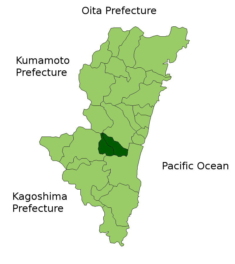 Location Map of Higashimorokata District in Miyazaki Prefecture, Japan